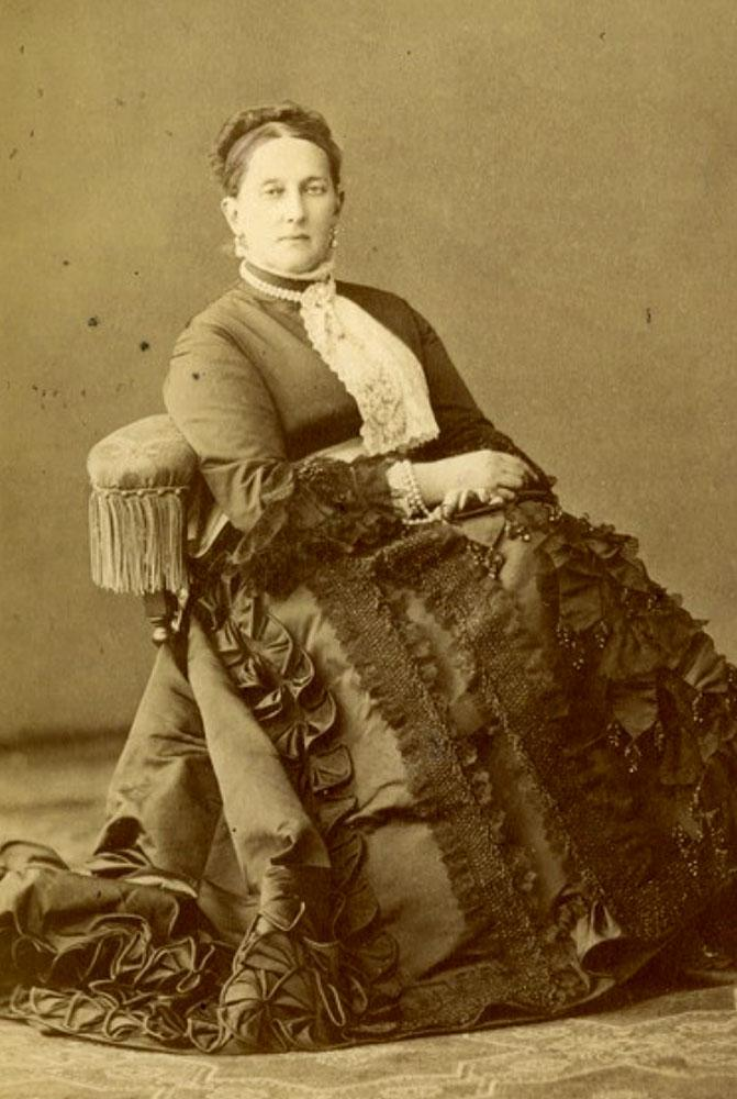 Grand Duchess Maria Nikolaevna. Duhess of Leuchtenberg. Early 1870s